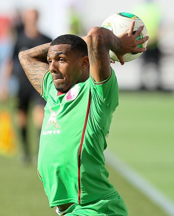 Yann M'Vila playing for FC Rubin Kazan in August 2013.